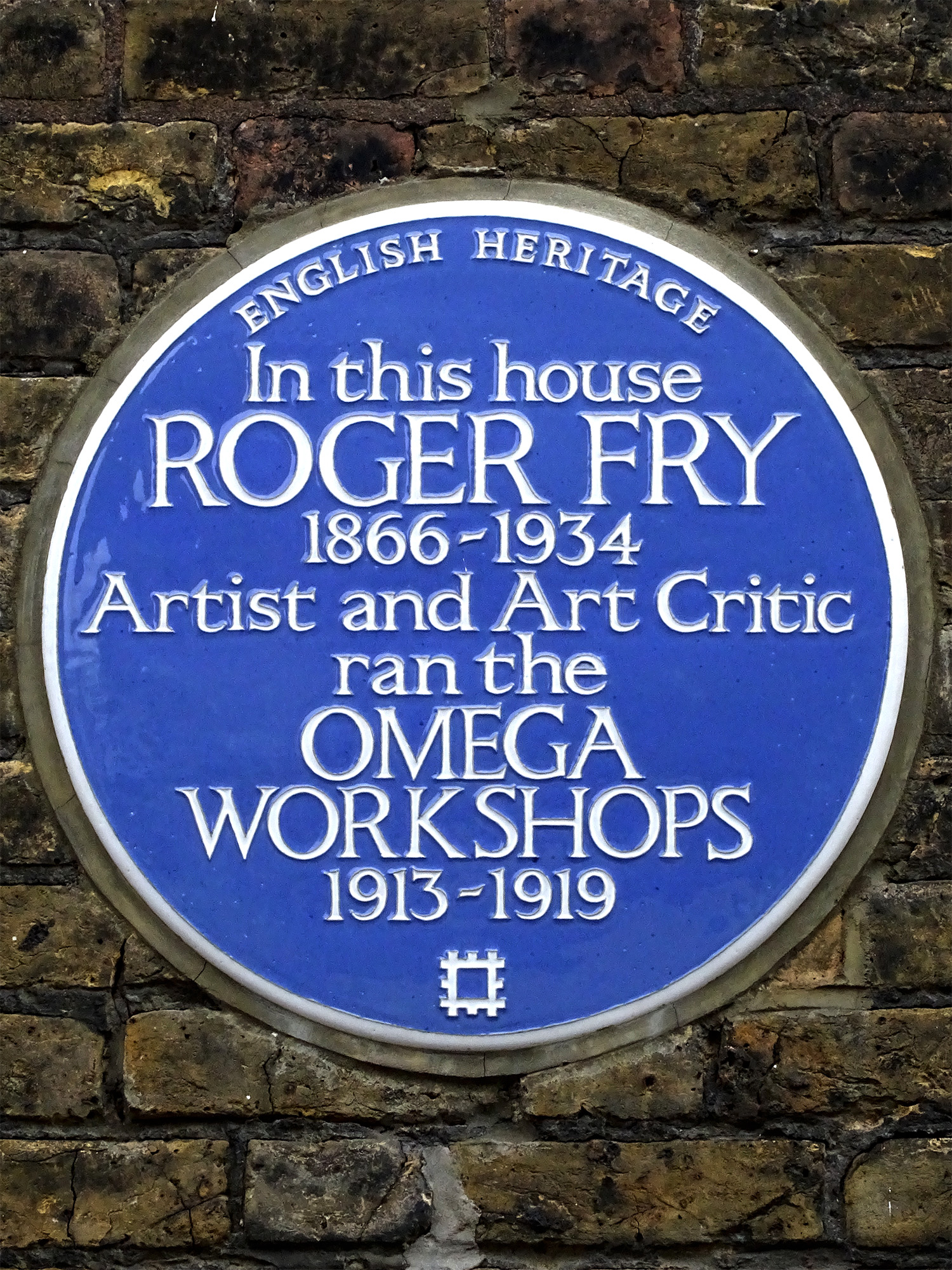 Blue plaque erected in 2010 by English Heritage at 33 Fitzroy Square, Fitzrovia, London W1P 6AY, London Borough of Camden